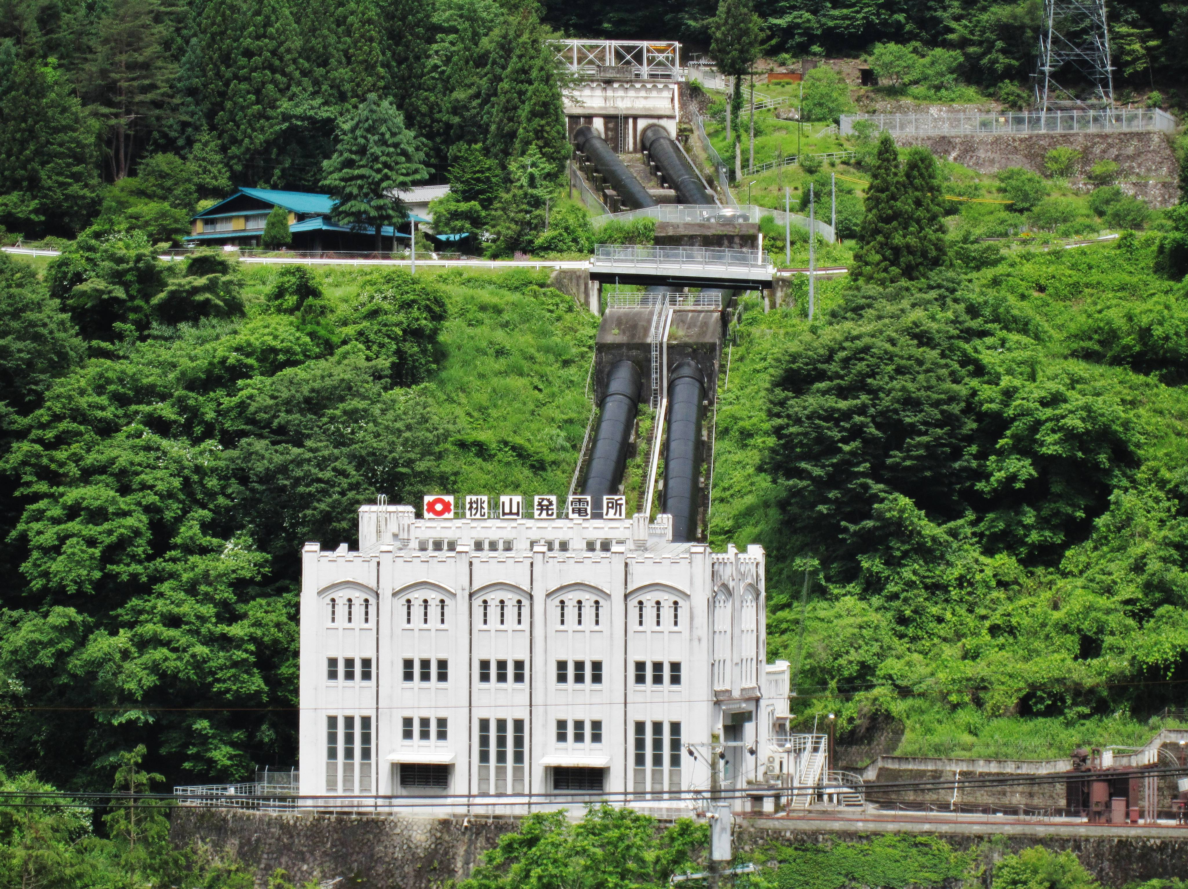 Momoyama hydroelectric power station.